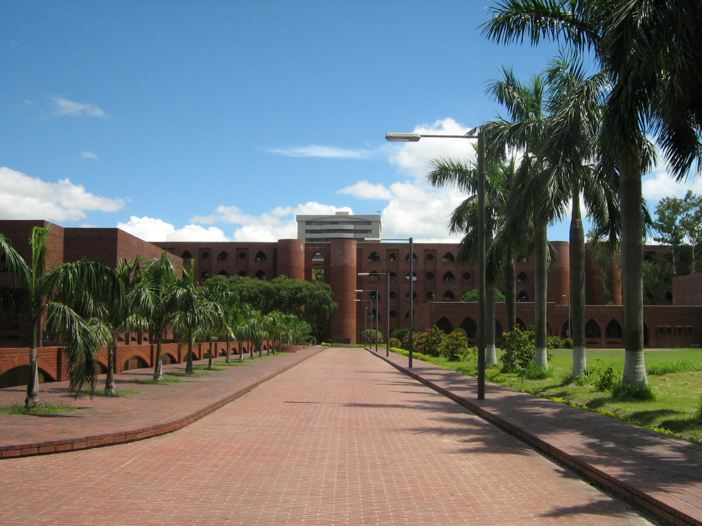 Captured by iutians.